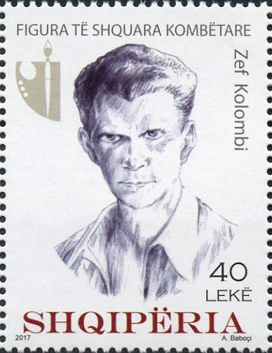 Distinguished National Personalities